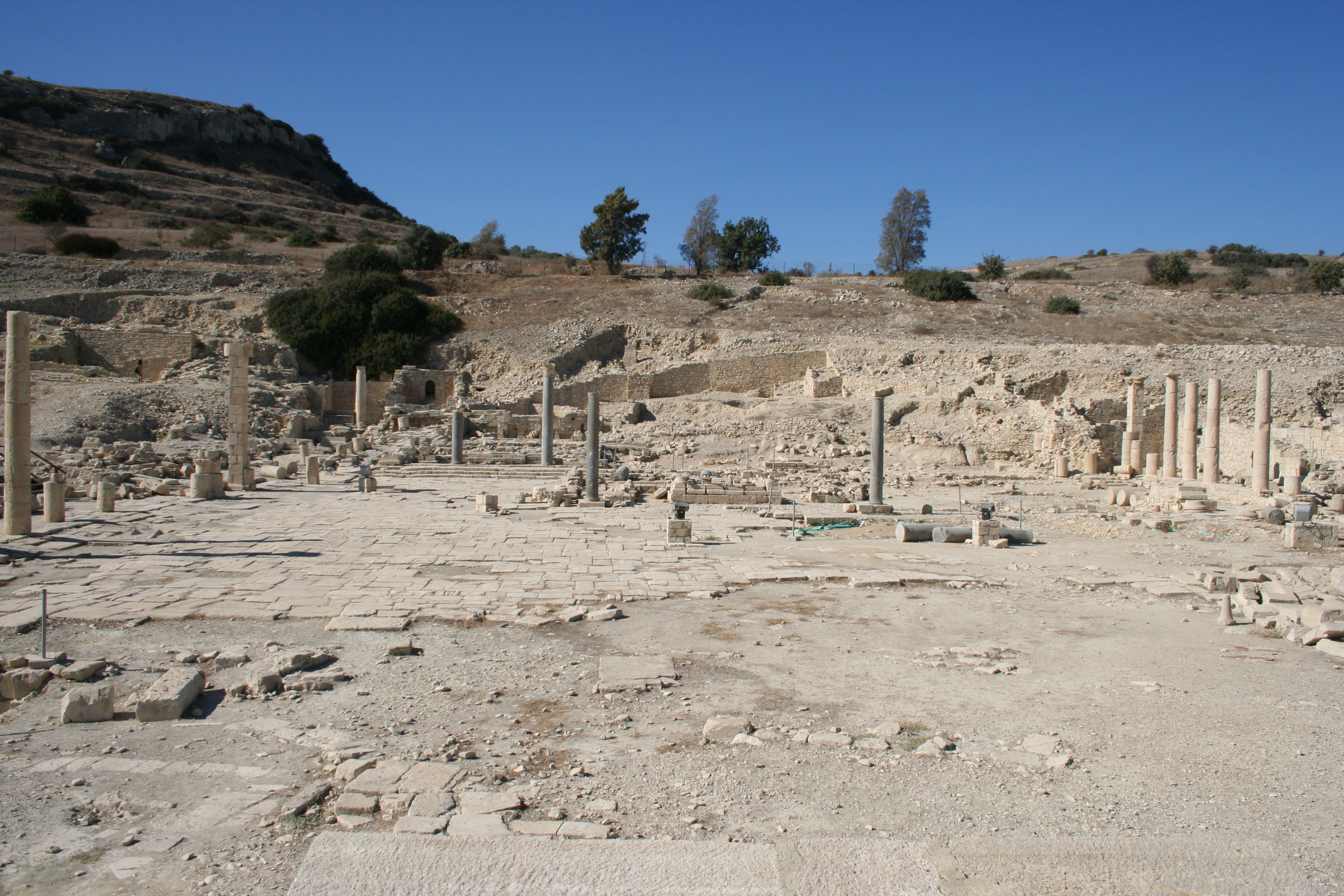 Remains of the antique city Amathus